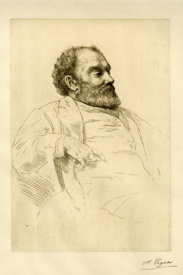 "Portrait de Val Prinsep, R.A." Drypoint etching of the English artist Valentine Prinsep by the French artist Alphone Legros. Etching with some drypoint, printed in brown ink. Portrait of Prinsep in middle age. Courtesy of the British Museum.